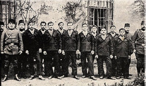 The crew of French submarine Saphir (lost on January 15, 1915) in Turkish captivity.